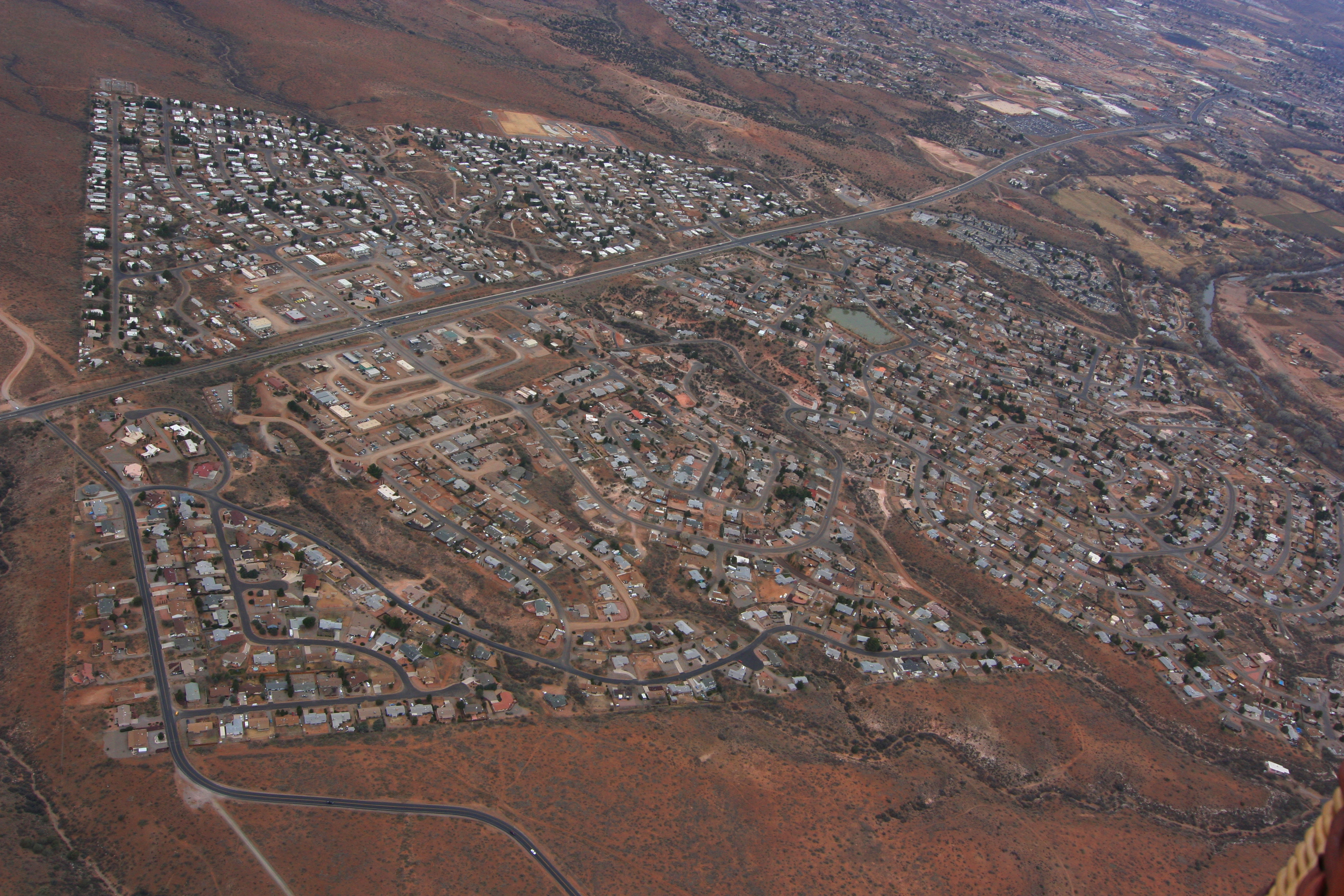 Verde Village as seen from a hot air balloon. Google Map